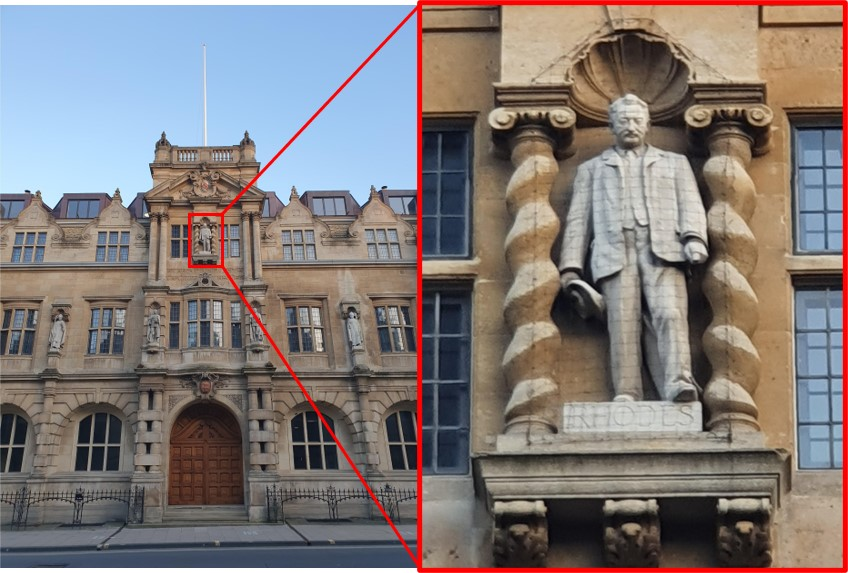 The Rhodes Must Fall movement in Oxford, UK, has been focused upon this statue of Cecil Rhodes at Oriel College. This photo at the left is the High Street facade of the Rhodes Building at Oriel College. The photo at the right is a zoomed photo of the Cecil Rhodes Statue that adorns the facade.